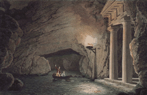 Altensteiner Höhle, in Schweina, Germany Image from 1838, temple existed until 1869.